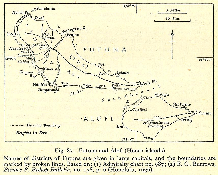 Futuna and Alofi Islands on a 1944 map.